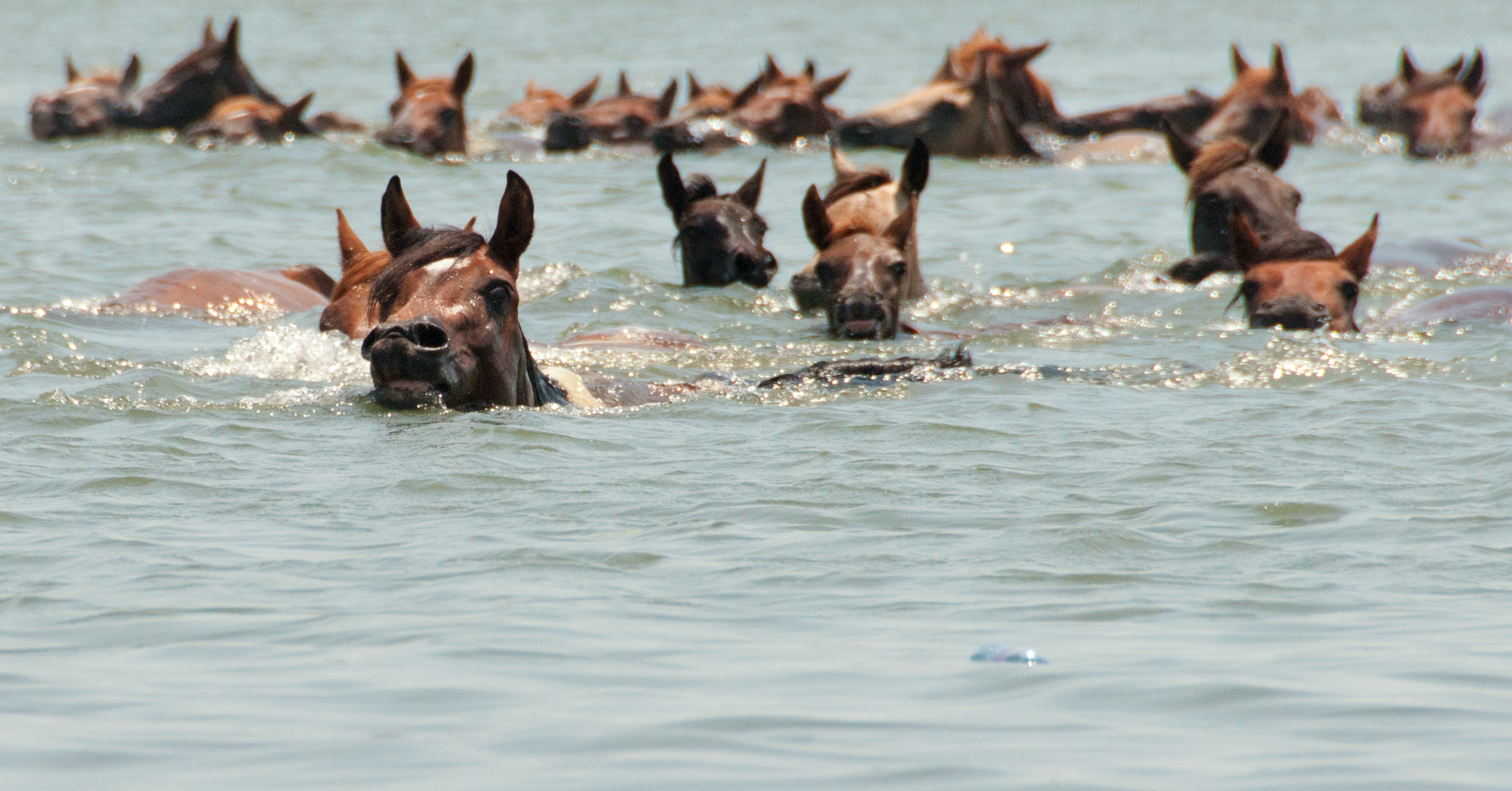 Chincoteague ponies during the annual pony penning and swim from Assateague.